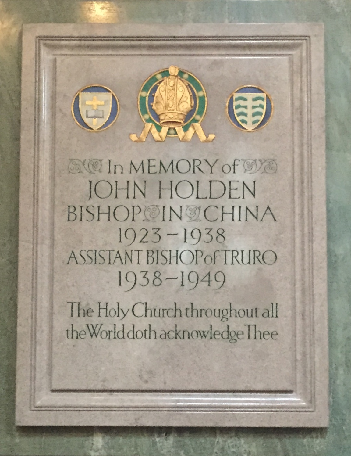 John Holden, Bishop in China 1923 - 1938, Assistant Bishop of Truro 1938 - 1949.